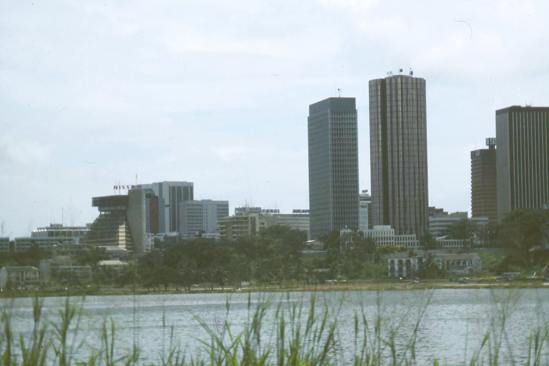 Towers on Ébrié Lagoon, in the Plateau District, Abidjan, Côte d'Ivoire.